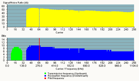 ADSL frequencies from Fritz! Box Fon WLAN modem, on a Belgian ADSL line ( distance to DSLAM is 850 m